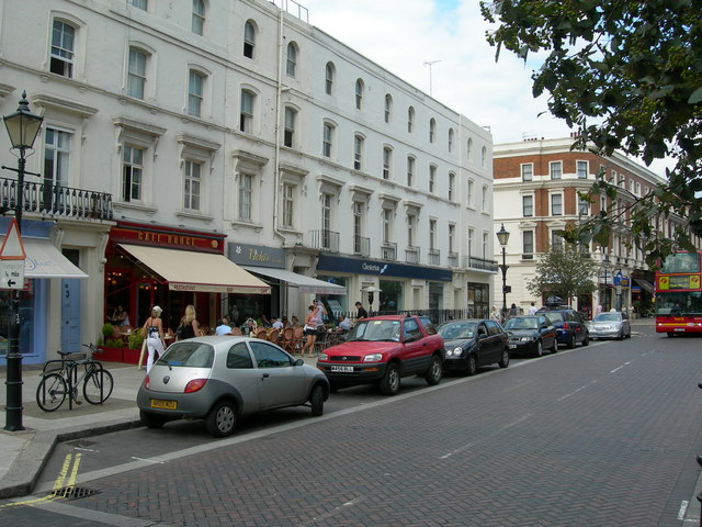 Clifton Road, W9. Looking towards Maida Vale